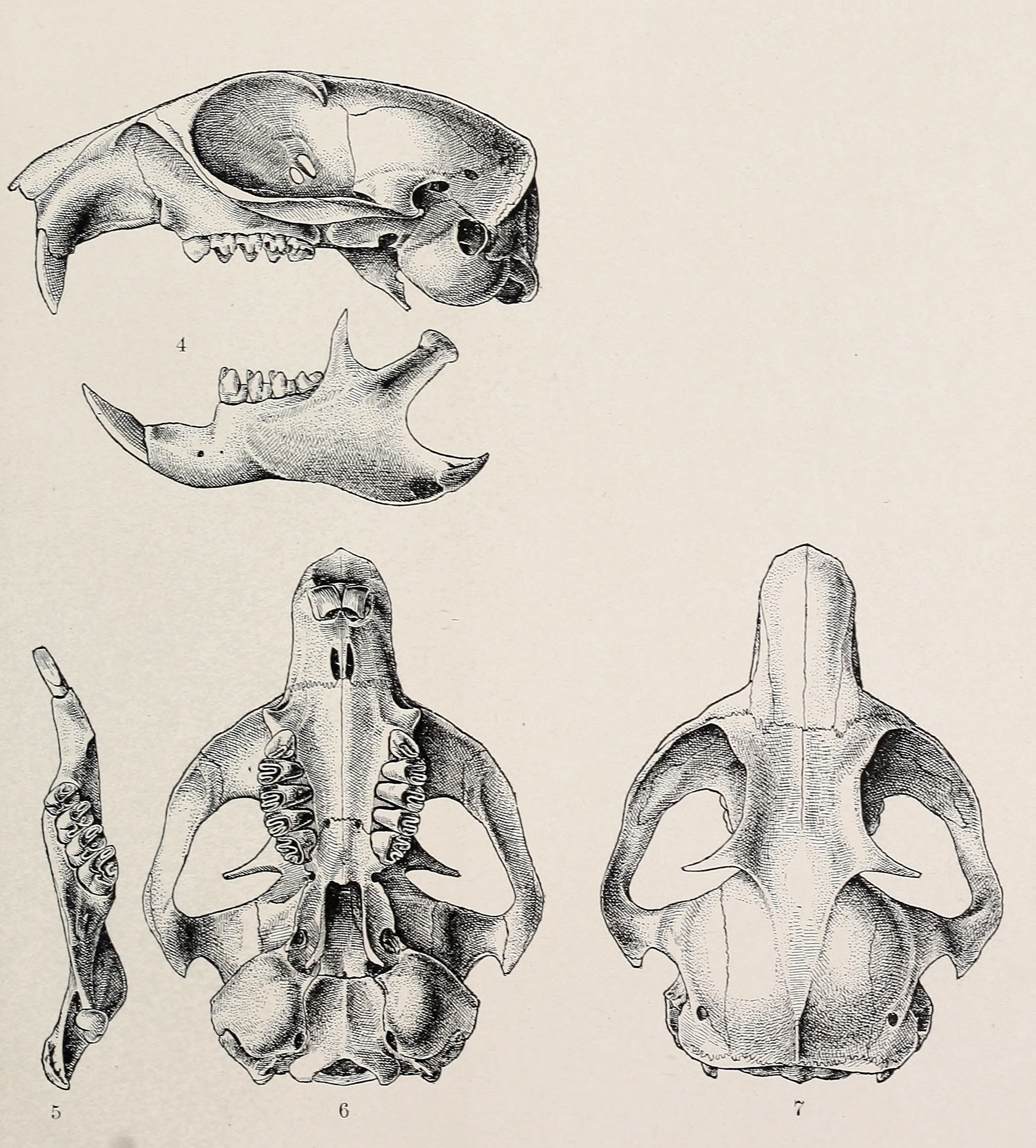 Skull of Cynomys gunnisoni, by Clinton Hart Merriam, 1870